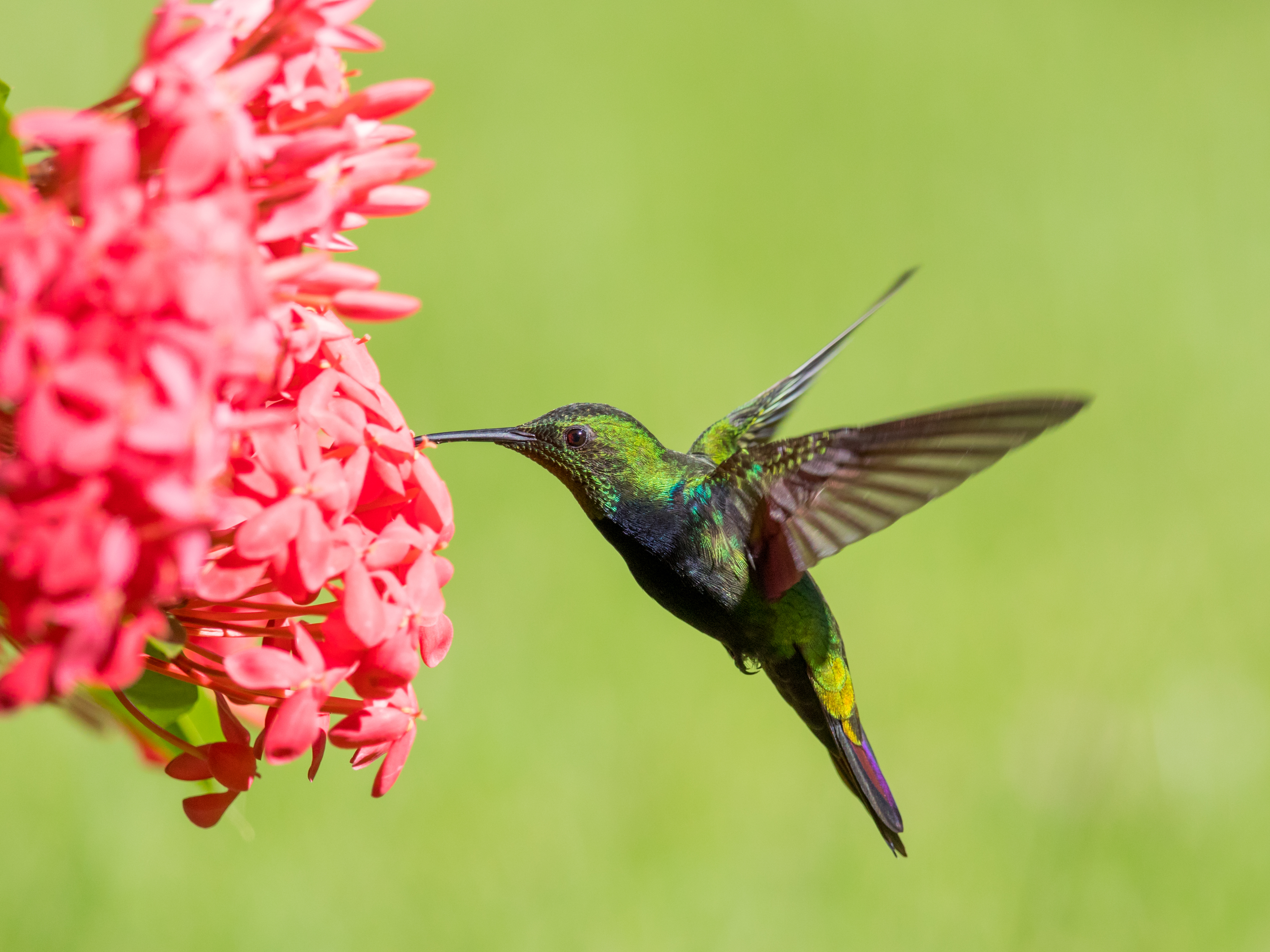 Antillean Mango near Bayahibe, Dominican Republic.